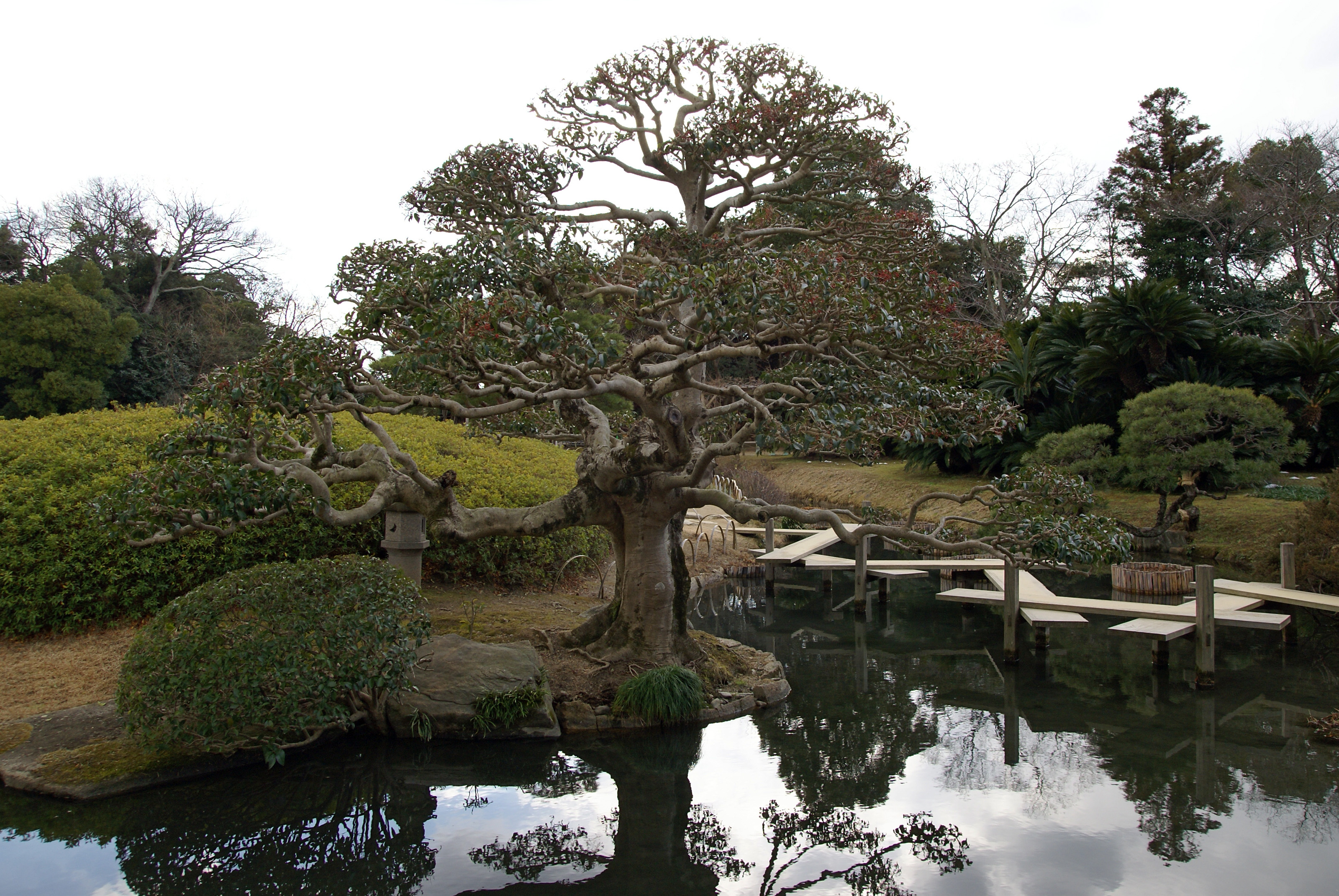 Korakuen in Okayama, Okayama prefecture, Japan